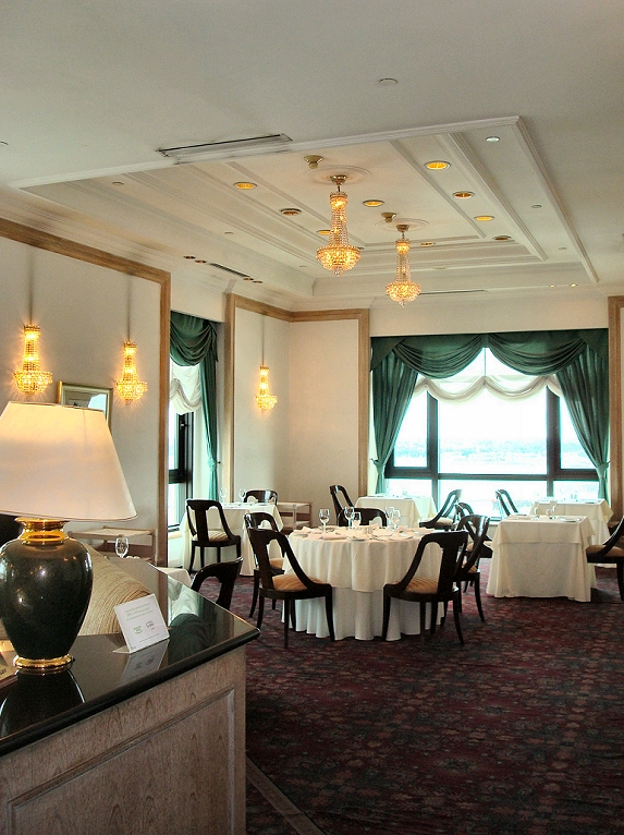 Restaurant Arcadia on the 25th floor of Hotel Radisson, Ciudad Vieja, Montevideo, Uruguay.